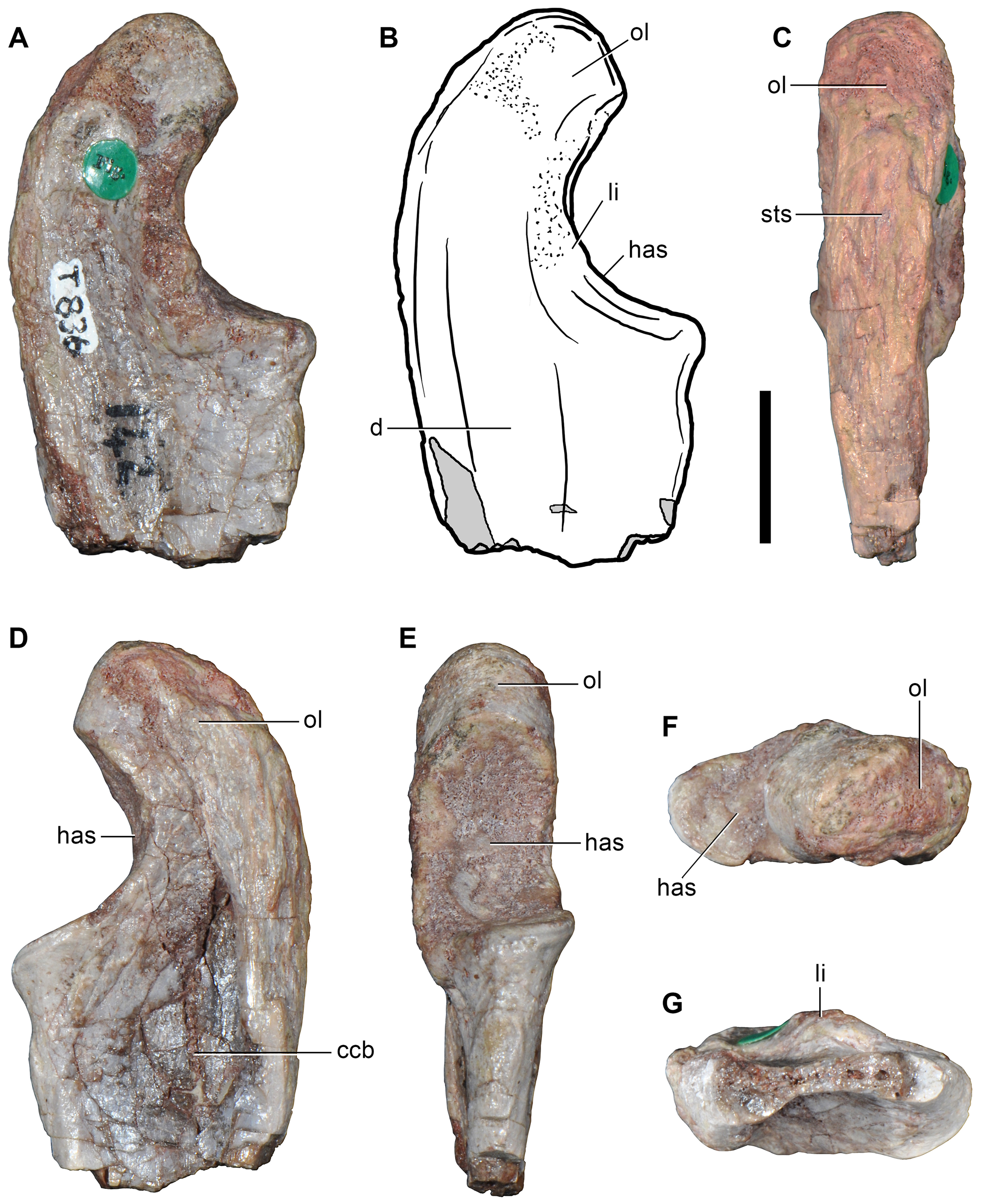 Aenigmastropheus parringtoni, an early archosauromorph from the middle Late Permian of Tanzania. Proximal end of the right ulna (UMZC T836, holotype) in anterior (A, B), dorsal (C), posterior (D), ventral (E), proximal (F) and distal (G). Abbreviations: ccb, collapsed cortical bone; d, depression; has, humeral articular surface; li, lip; ol, olecranon; sts, striated surface. Scale bar equals 1 cm.